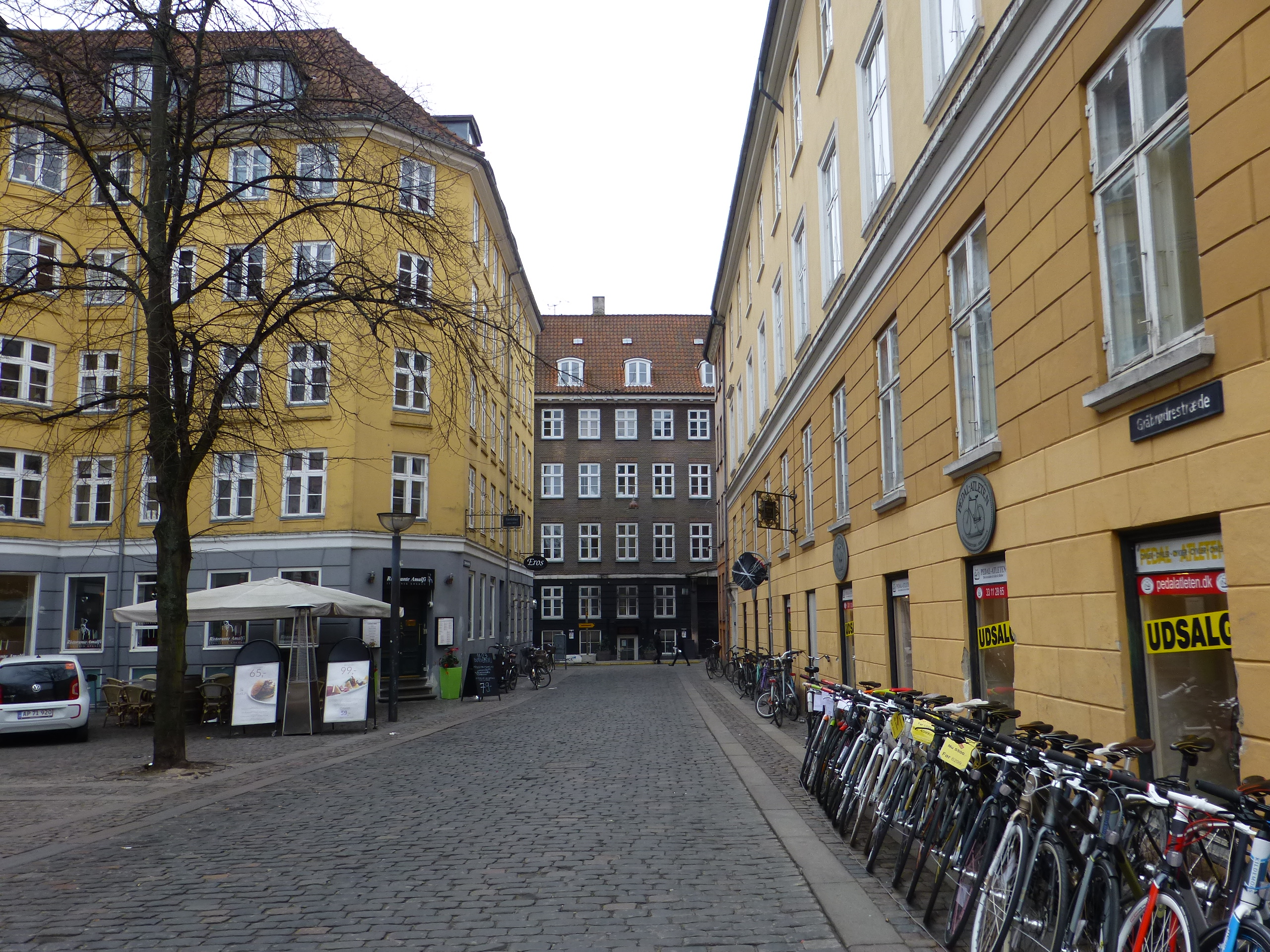 The street Gråbrødrestræde in Indre By in Copenhagen.